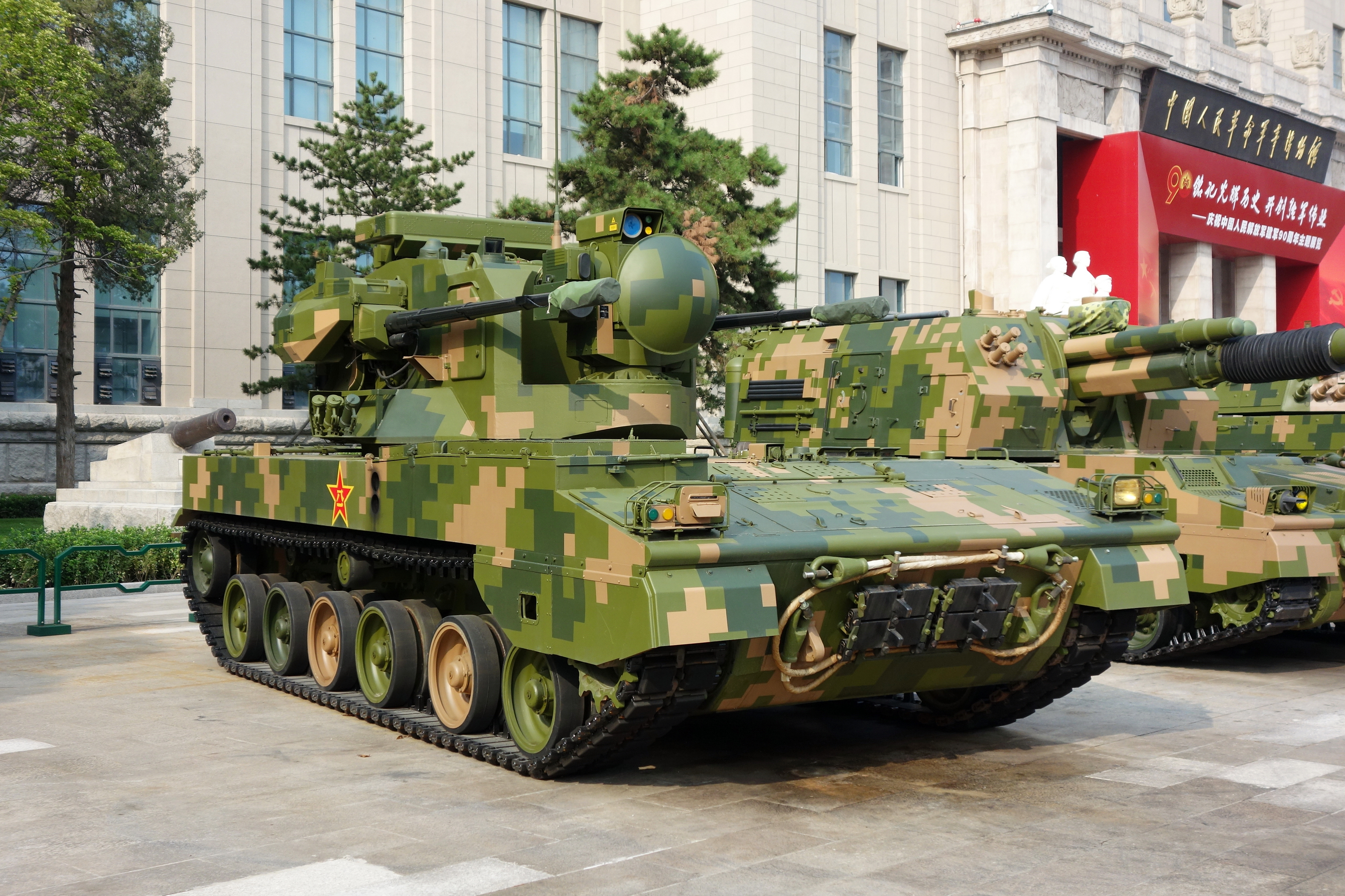 PGZ-09 Self Propelled Anti-Aircrafft Gun at Theme Exhibition of the 90th Anniversary of Chinese People's Liberation Army